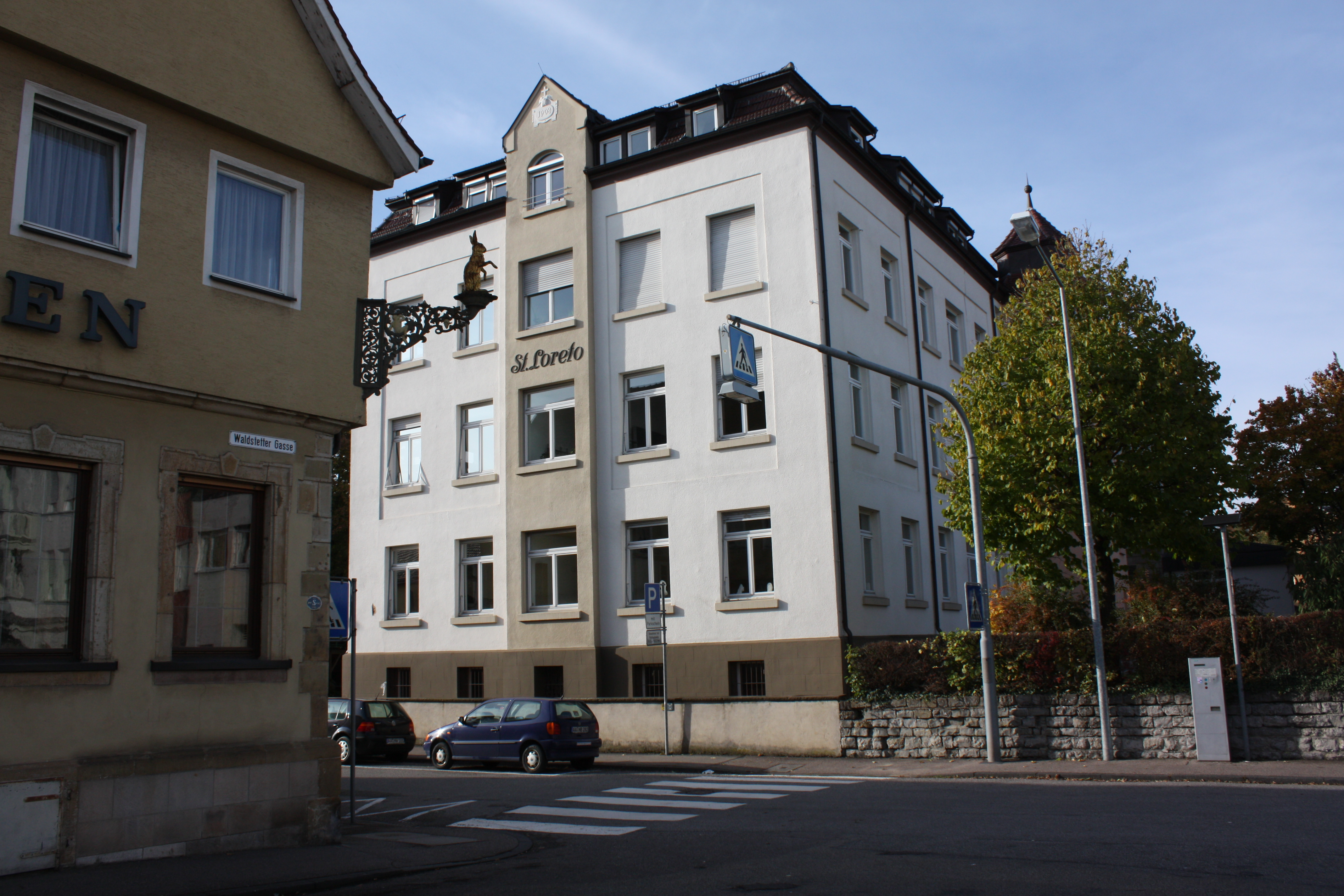 St. Loreto (Schwäbisch Gmünd), south facade